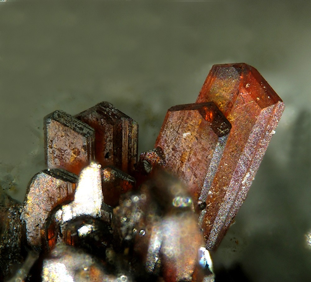 Pyrostilpnite Locality: St Andreasberg, St Andreasberg District, Harz Mts, Lower Saxony, Germany (Locality at ) Picture width 2.5 mm. Collection and photograph Christian Rewitzer